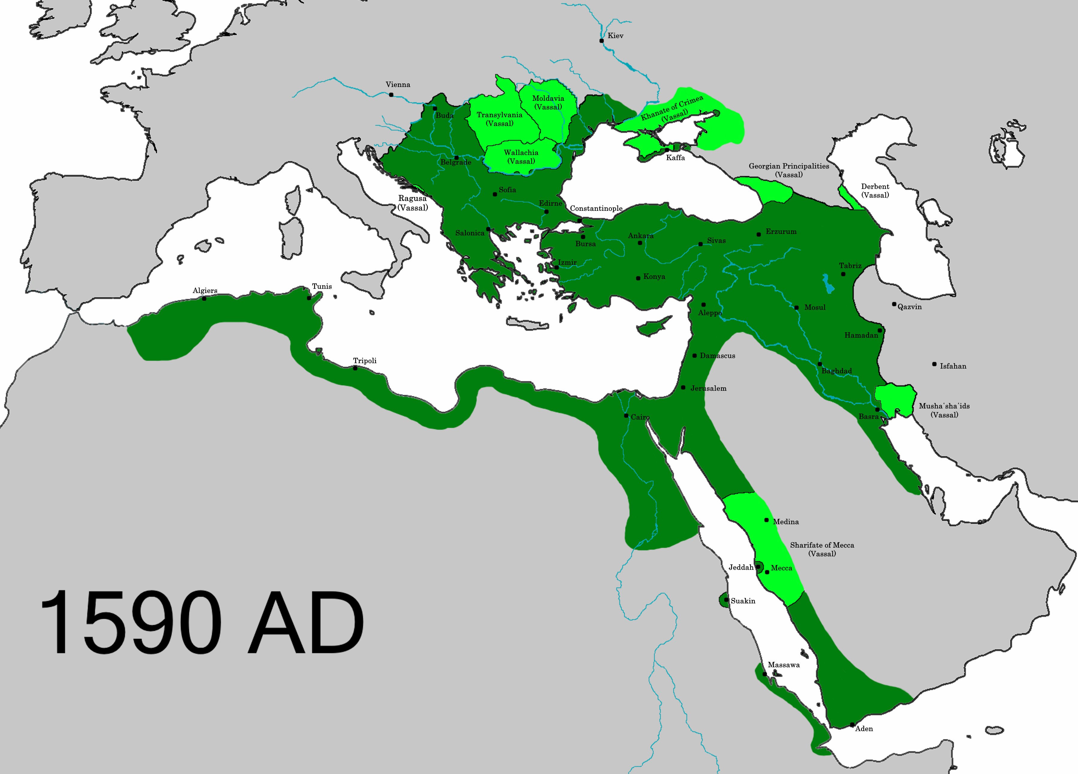 A map depicting the Ottoman Empire and its dependencies in 1590.